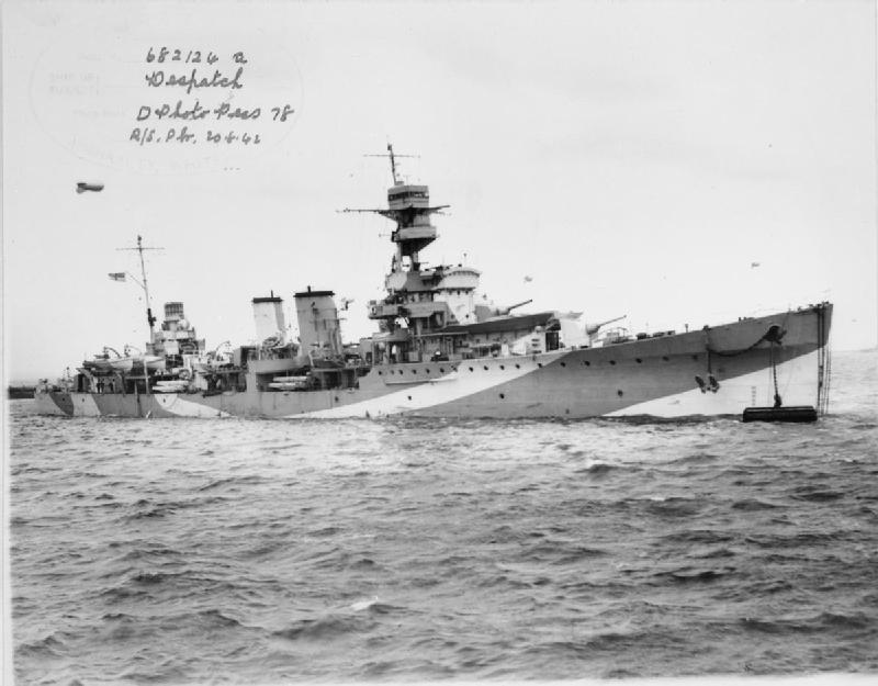 British light cruiser HMS DESPATCH moored to a buoy.